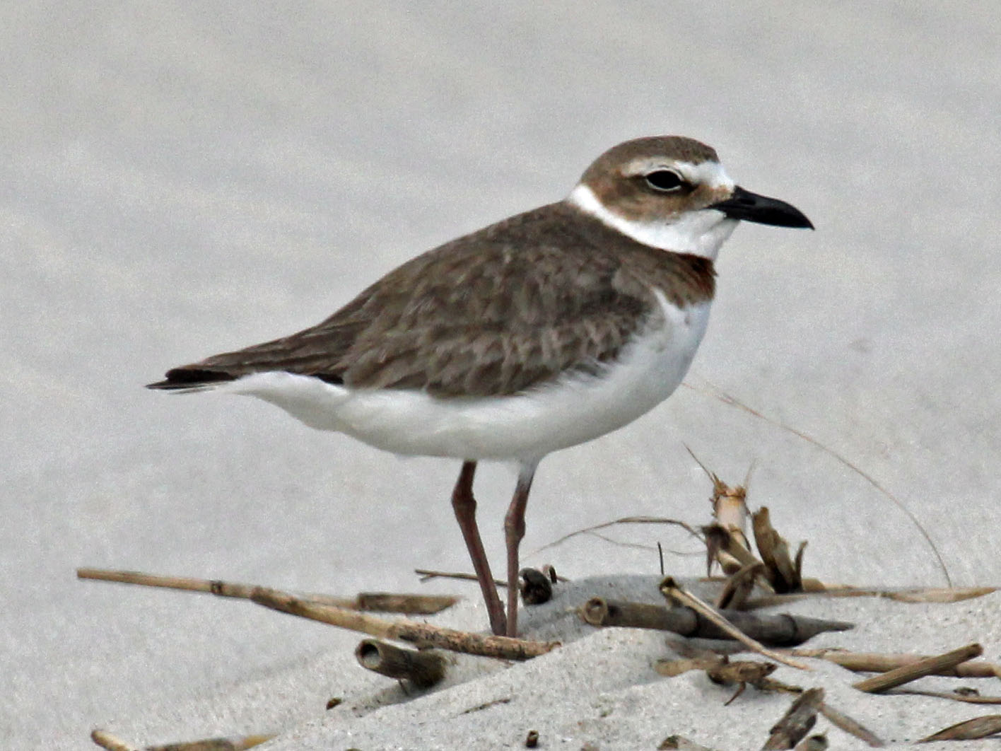 Female Wilson's Plover (Charadrius wilsonia) - Sunset Beach, North Carolina